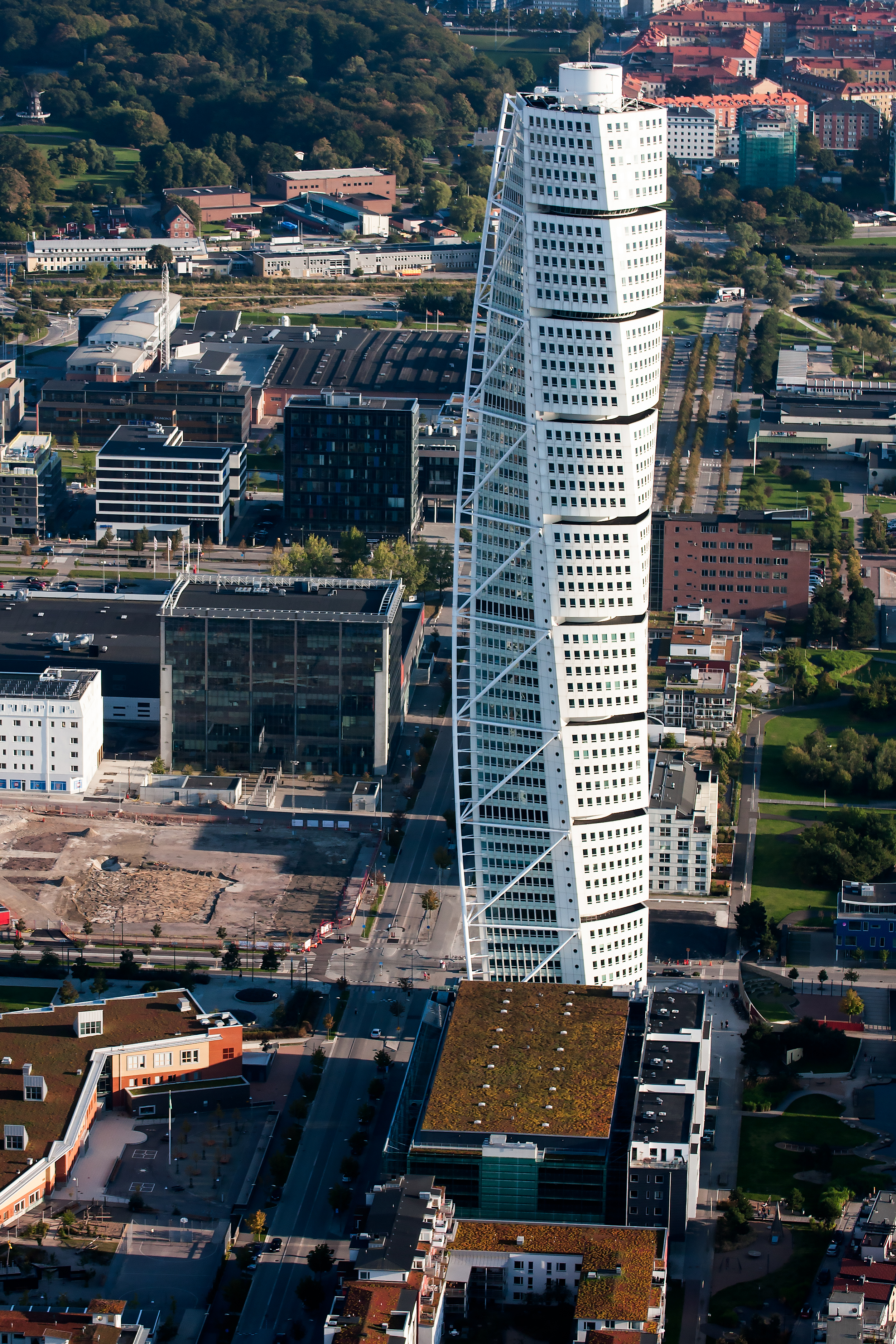 Turning Torso skyscraper in Malmö, Sweden.